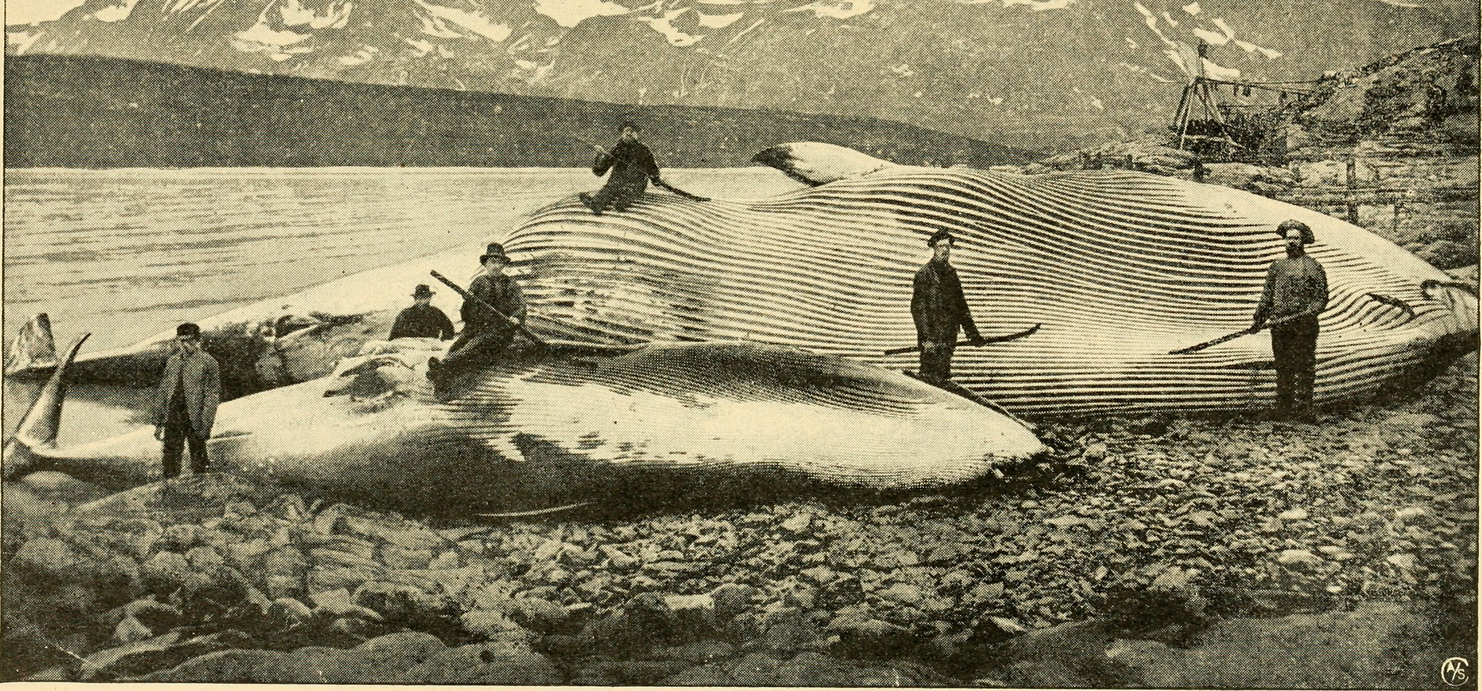 Title: Sei whale (front) and fin whale (back). From Av hvalfangstens historie (1922). Year: 1922 (1920s) Authors: Risting, Sigurd, 1870- Subjects: Whaling Publisher: Kristiania : J. W. Cappelen Text Appearing Before Image: w qq 5' CD 13 Text Appearing After Image: '